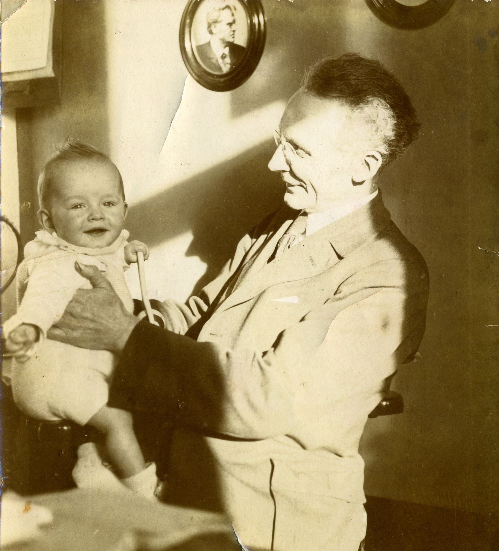 Jacob Bjerknes on his father Vilhem Bjerknes lap.1897